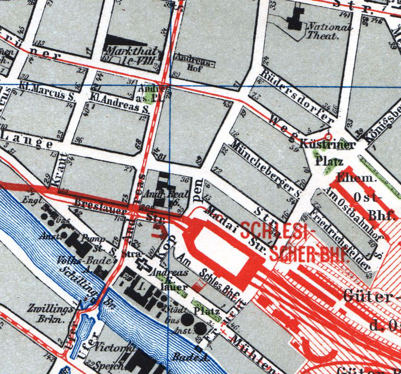 Berlin - map eastern part 1896, section Andreasstraße